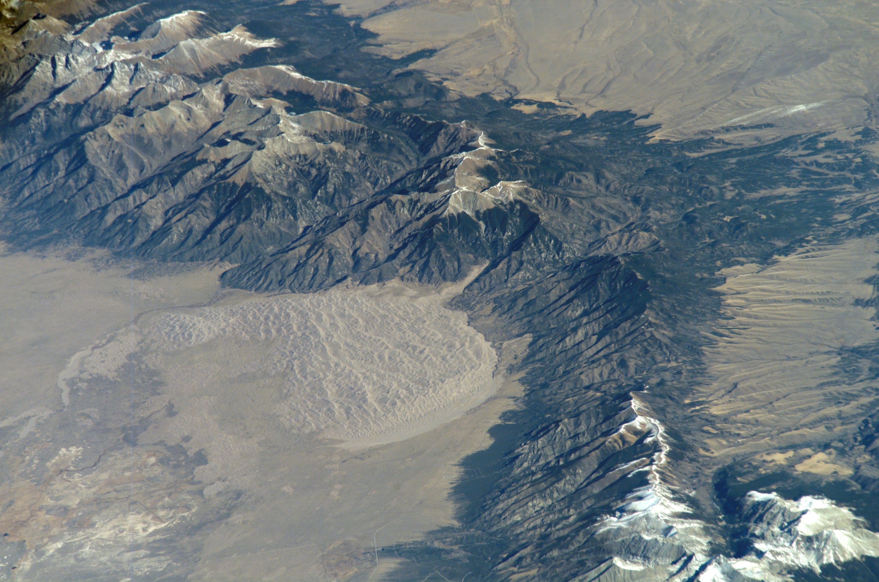 Satellite picture of Great Sand Dunes National Park and Preserve and the Sangre de Cristo Range, in southern Colorado. They are featured in this image photographed by an Expedition 16 crewmember on the International Space Station. The Sangre de Cristo Mountains of south-central Colorado stretch dramatically from top left to lower right of this image, generally outlined by the dark green of forests with white snow-capped peaks on the highest elevations. Dun-colored dunes, covering an area of 80 square km, are banked up on the west side of the mountains and comprise the Great Sand Dunes National Park and Preserve.